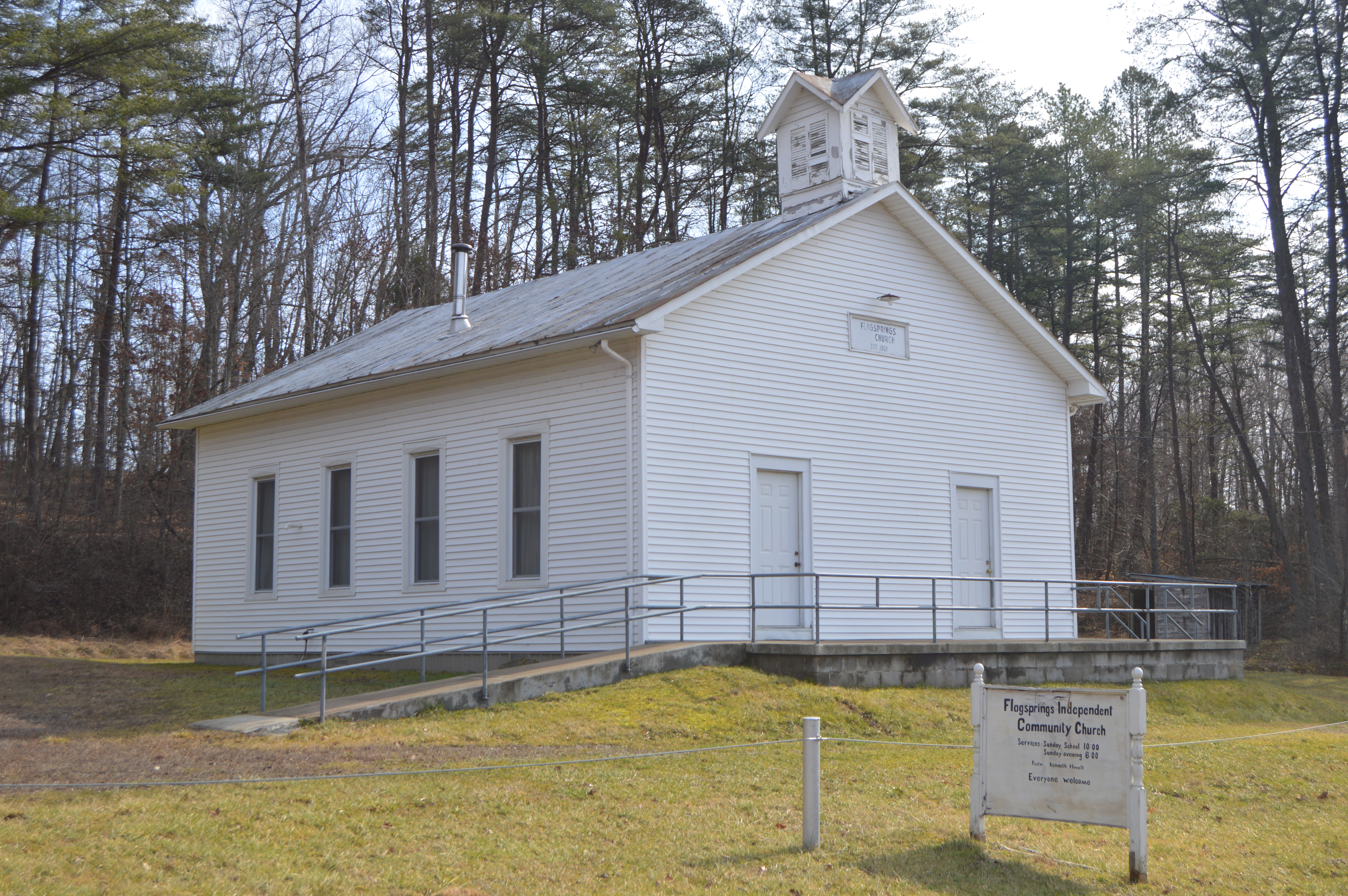 Front and northern side of Flag Springs Community Church, located along State Route 141 in western Walnut Township, Gallia County, Ohio, United States.